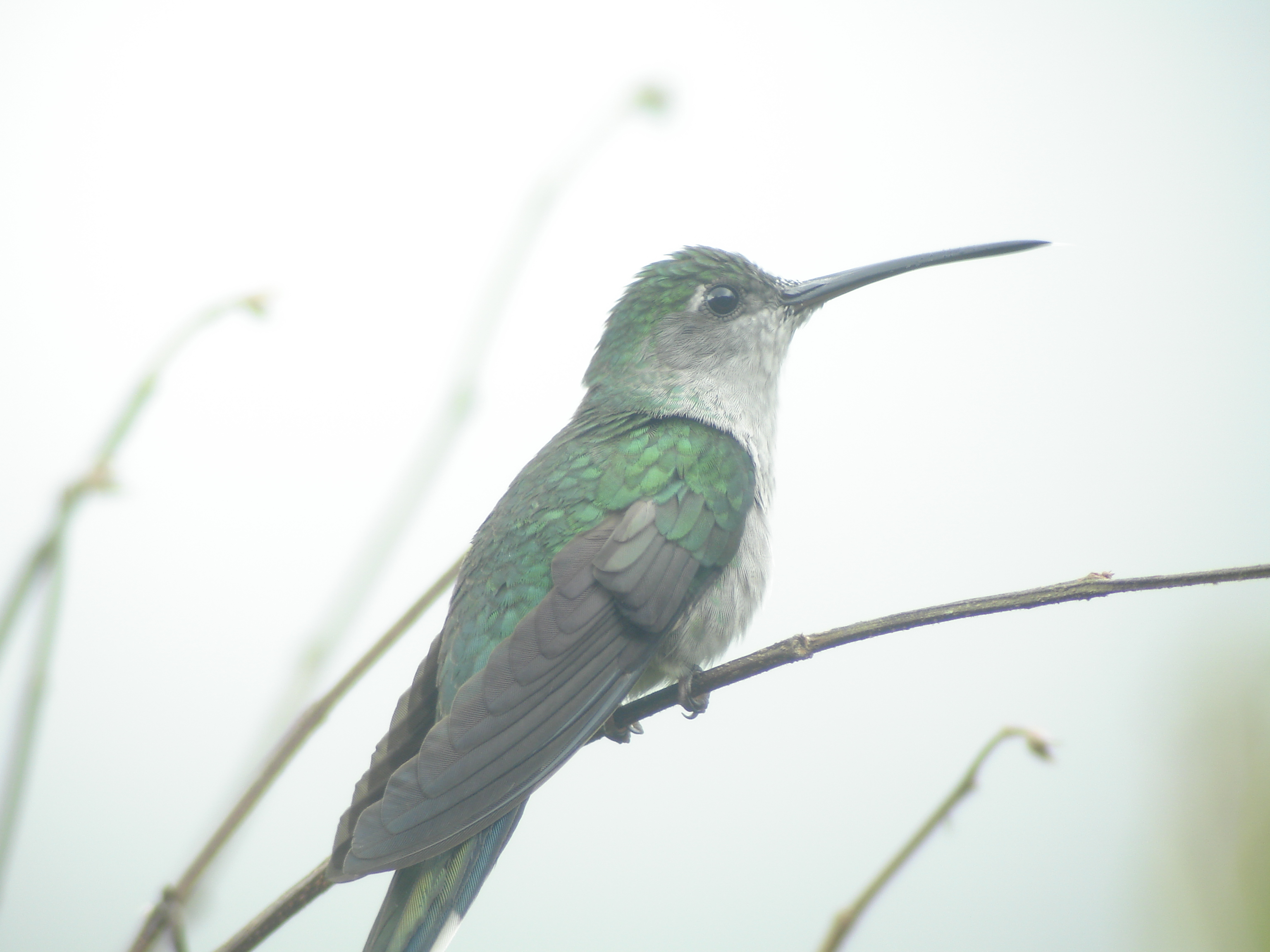 Grey-breasted Sabrewing (Campylopterus largipennis) in southern Ecuador